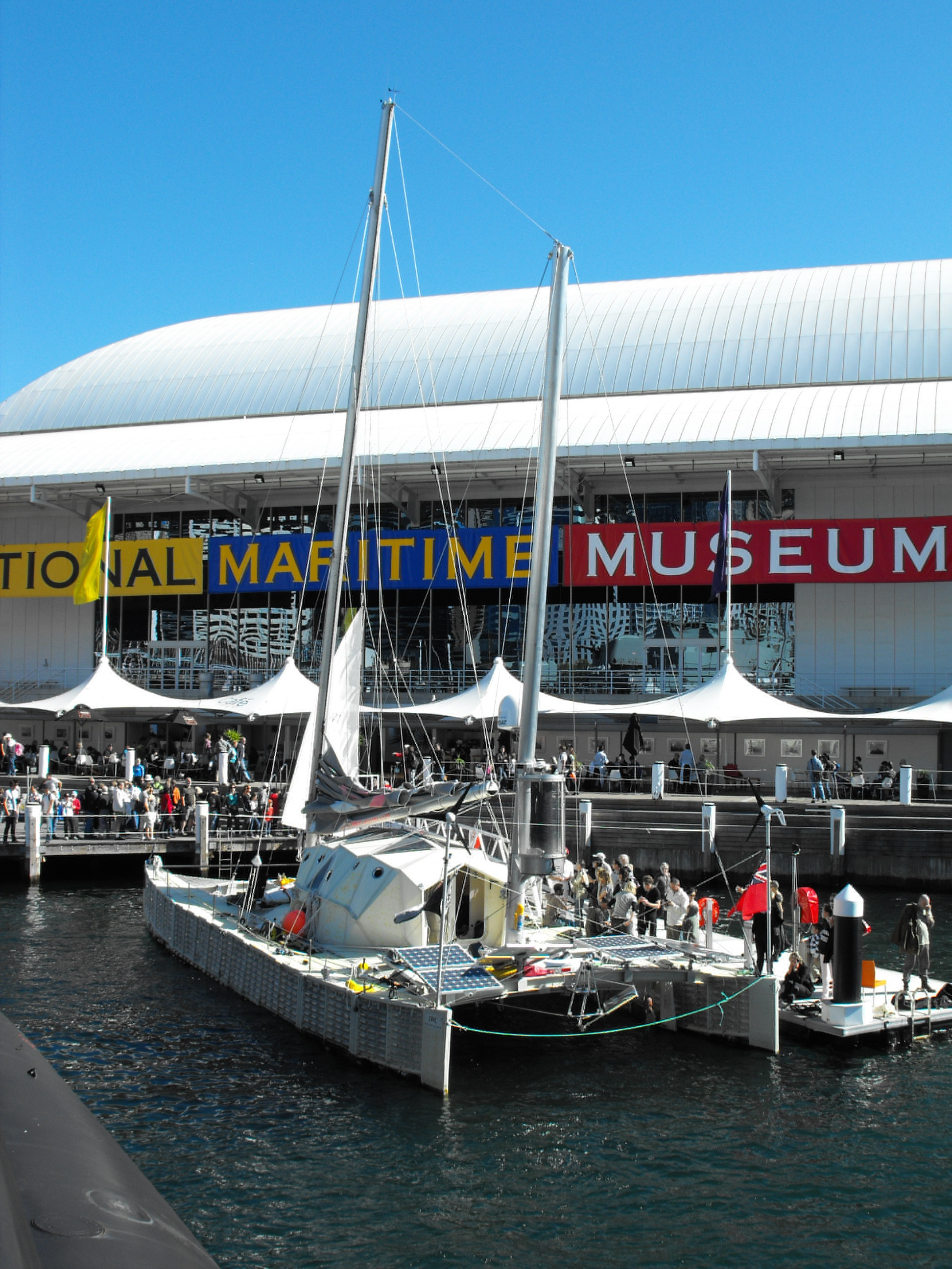 The catamaran Plastiki docked at the Australian National Martime Museum for display